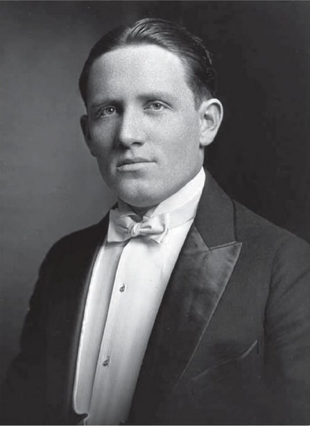 Spencer Tracy. Eastern Debating Team. Ripon College (1922)